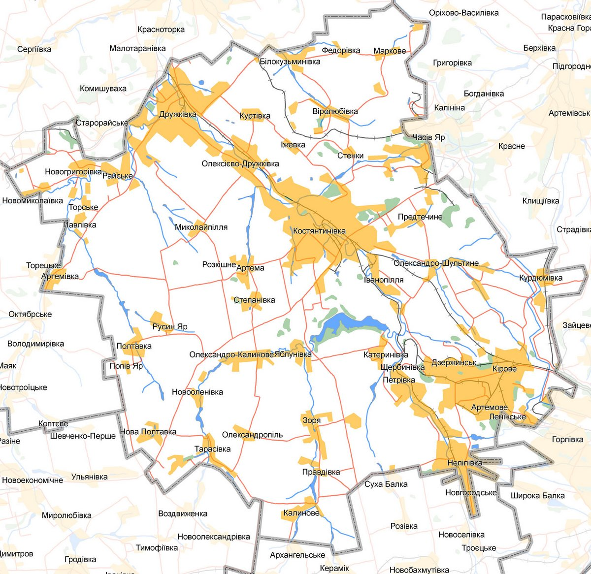 Map of Kostiantynivka Raion, Donetsk Oblast, Ukraine